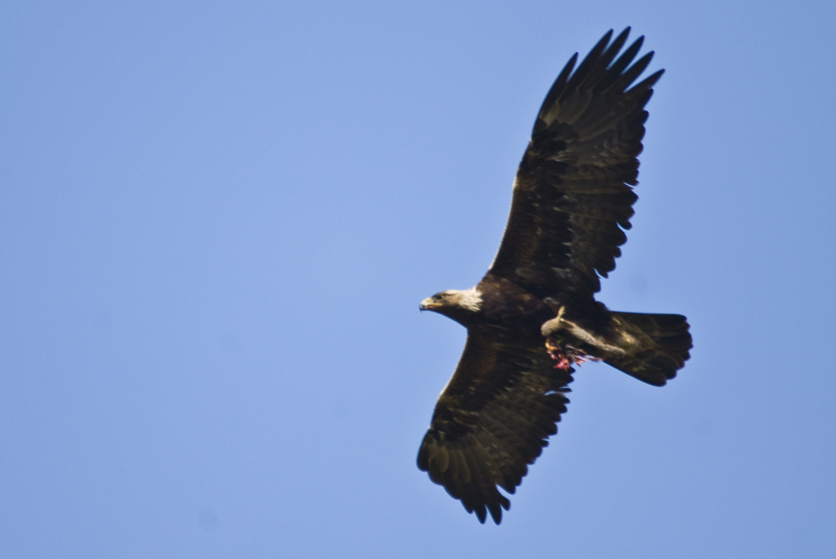 Golden eagle (Aquila chrysaetos)